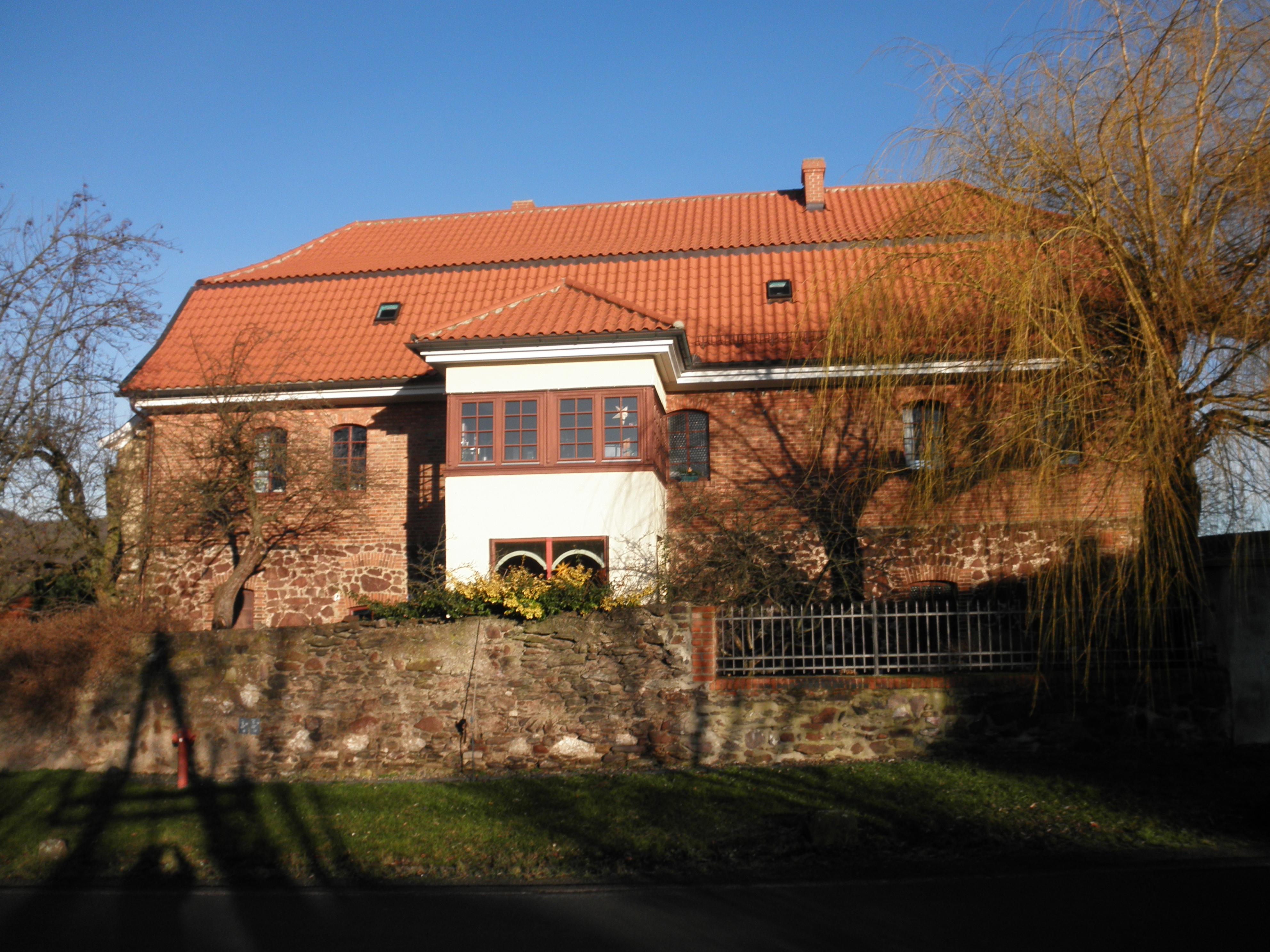 Manor House in Herrmannsacker in Thuringia